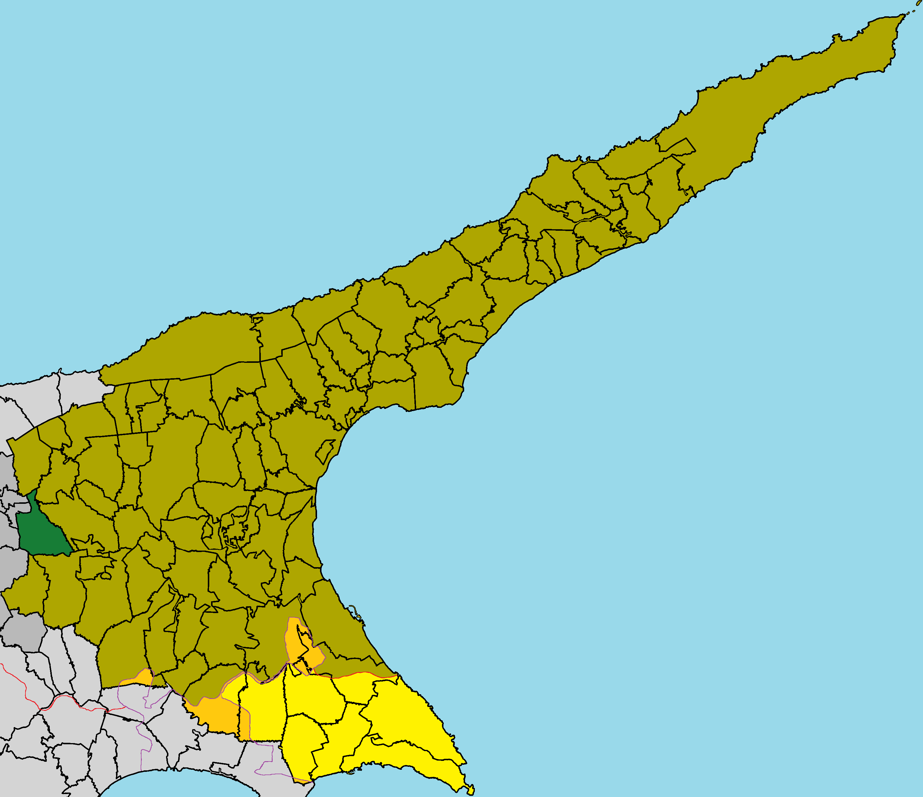 Angastina in Famagusta District (de jure).